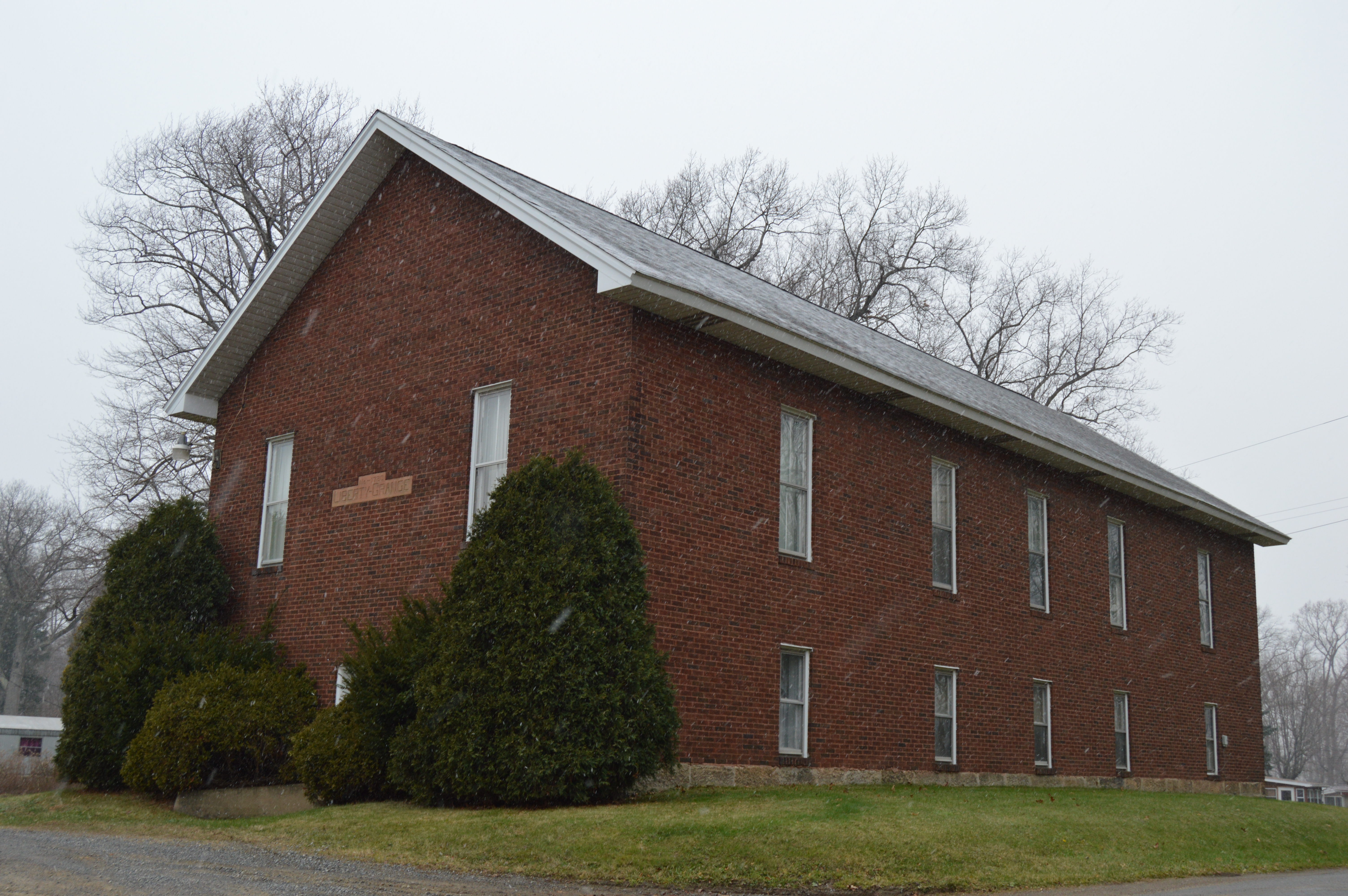 Front and eastern side of the Liberty Grange #1780, located on Pennsylvania Route 108 at the Grange Hall Road intersection in Scott Township, Lawrence County, Pennsylvania, United States.